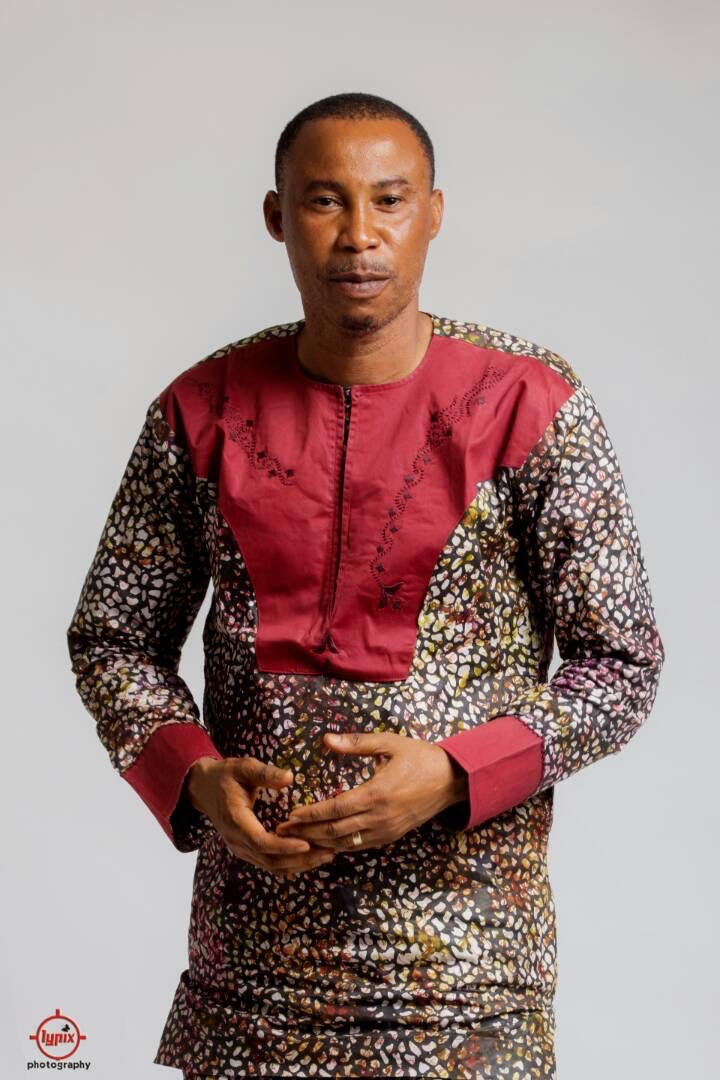 Olusegun Mojeed Johnson